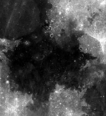 Mare Tranquillitatis sits within the Tranquillitatis basin. The mare material within the basin consists of basalt in the intermediate to young age group of the Upper Imbrian epoch. The surrounding mountains are thought to be of the Lower Imbrian epoch, but the actual basin is probably Pre-Nectarian. The basin has irregular margins and lacks a defined multiple-ringed structure. The irregular topography in and near this basin results from the intersection of the Tranquillitatis, Nectaris, Crisium, Fecunditatis, and Serenitatis basins with two throughgoing rings of hypothetical Procellarum basin. Mare Serenitatis is seen in the upper left of the photo below. Palus Somni, on the northeastern rim of the mare, is filled with the basalt that spilled over from Tranquillitatis. This mare also served as the landing site for Apollo 11, the first manned landing on the Moon.